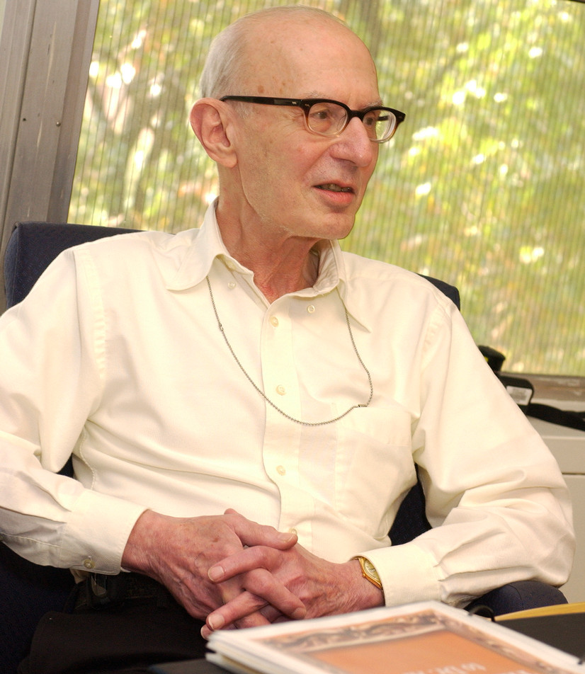 Dr. Al Rabson, Deputy Director of the National Cancer Institute (2006-2010). Dr. Rabson and his wife, Dr. Ruth Kirschstein, were one of the early couples at the National Institutes of Health. They arrived here in 1955 and spent their career working at the NIH and NCI. For many years, the NCI Laboratory of Pathology performed the pathology for most of the NIH institutes conducting research at the Clinical Center. The mindset that Dr. Rabson and his colleagues had towards the many people who participated in Clinical Center studies was simple. He said: “We owed them the very, very best we could give them.” Every year since 2012, the NIH Director’s Award ceremony has included the Alan S. Rabson Award for Clinical Care. The award goes to a deserving employee who demonstrates an exceptional commitment to assisting patients and their families who look to the NIH for help. Dr. Alan S. Rabson oral history: July 11, 1997